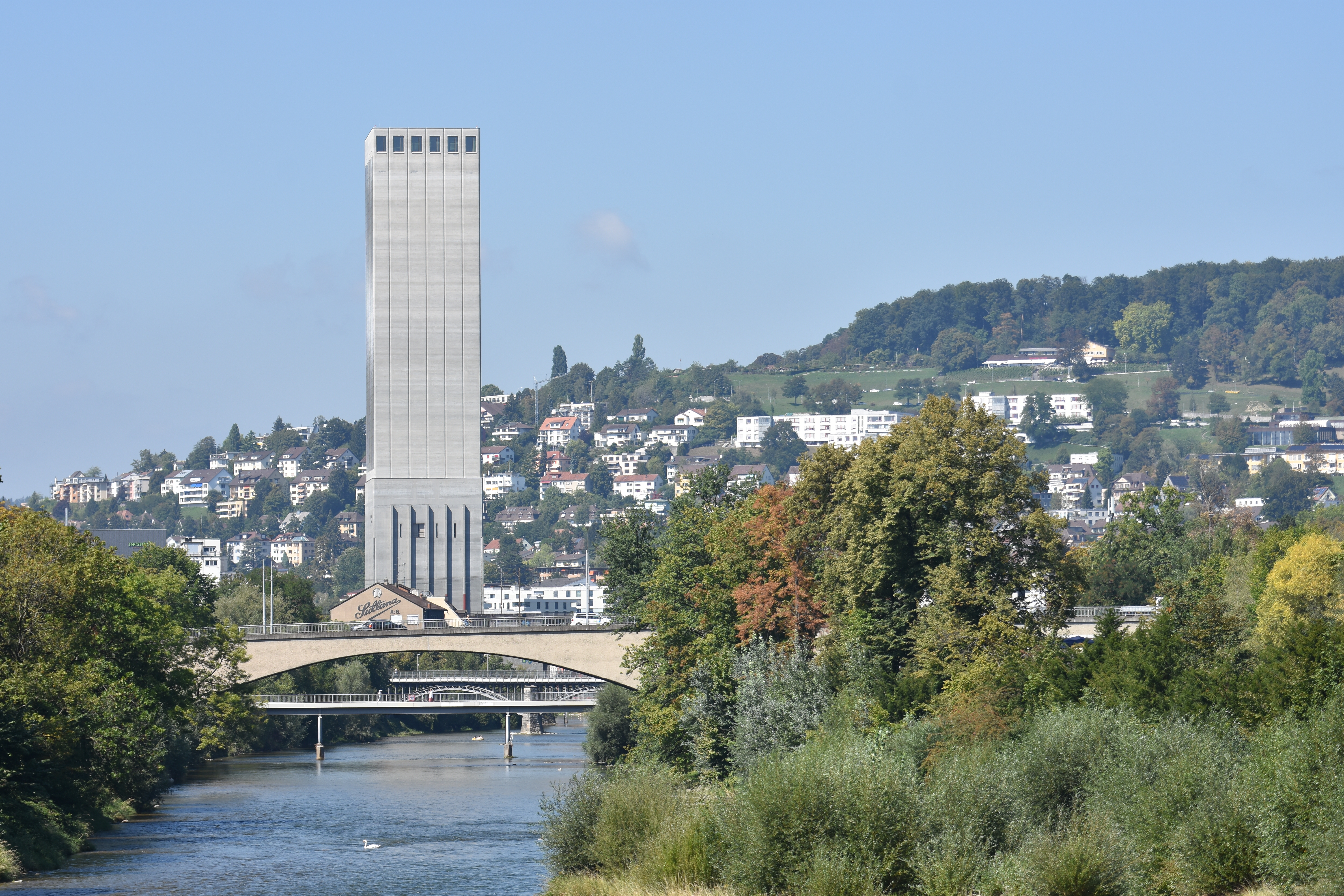 Swissmill Tower, Limmat river, Käferberg hill as seen from Platzspitz Parkin Zürich